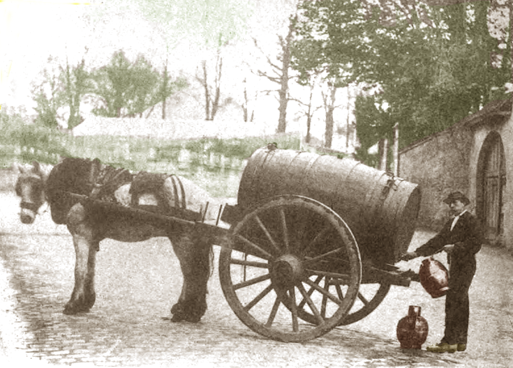 Water carrier in the country of Rennes - Photo of 1892